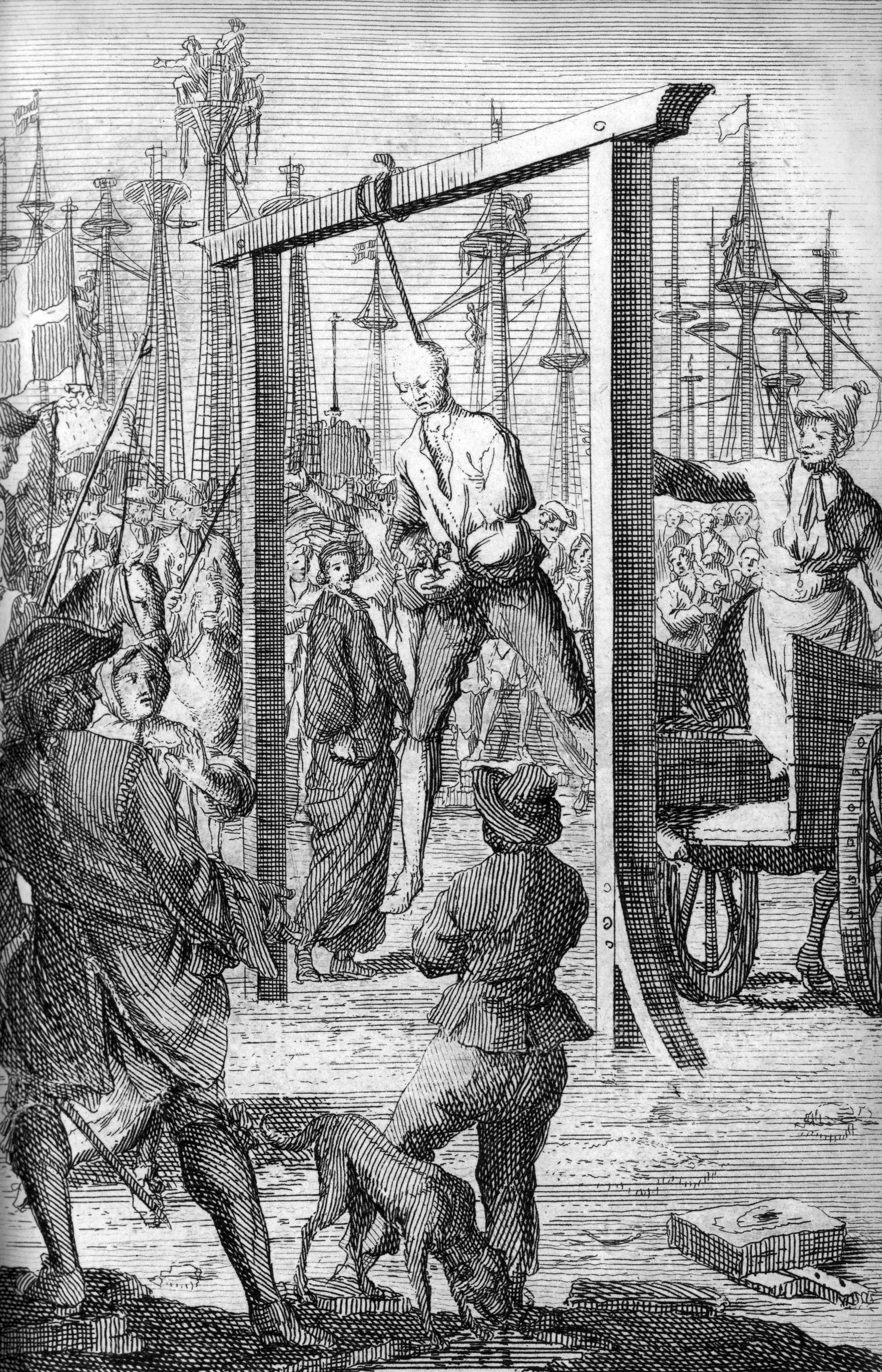 The Hanging of Major Stede Bonnet: this engraving was published in the Dutch version of Charles Johnson's A General History of the Pyrates—Historie der engelsche zee-roovers ... door Capiteyn Charles Johnson (1725), Amsterdam: Hermanus Uytwerf